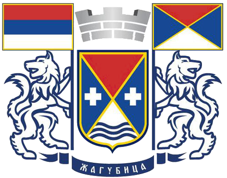 Greater coat of arms of Žagubica